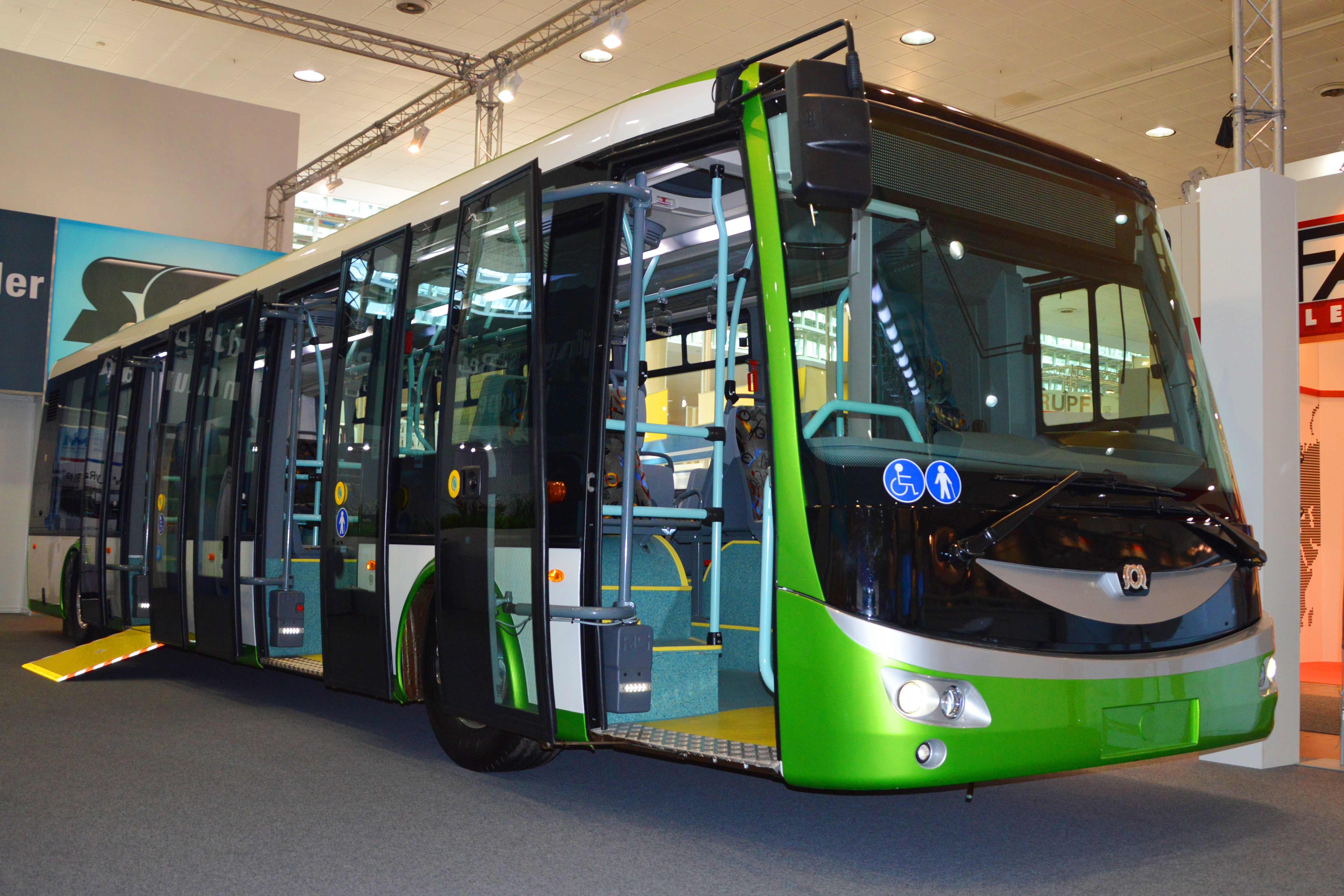 Electric city bus SOR EBN 11. Length: 11,1 m. Width: 2,525 m. Height: 2,92 m. Three doors. Electric engine 120 kW. Capacity: 29+1 seats. 92 places in total. Photo taken at exhibition IAA 2014 in Hanover, Germany